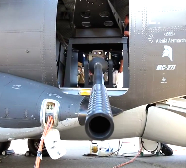 Alenia Aermacchi: MC-27J- cannone da 30 millimetri